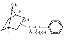 structural formula of Atropina